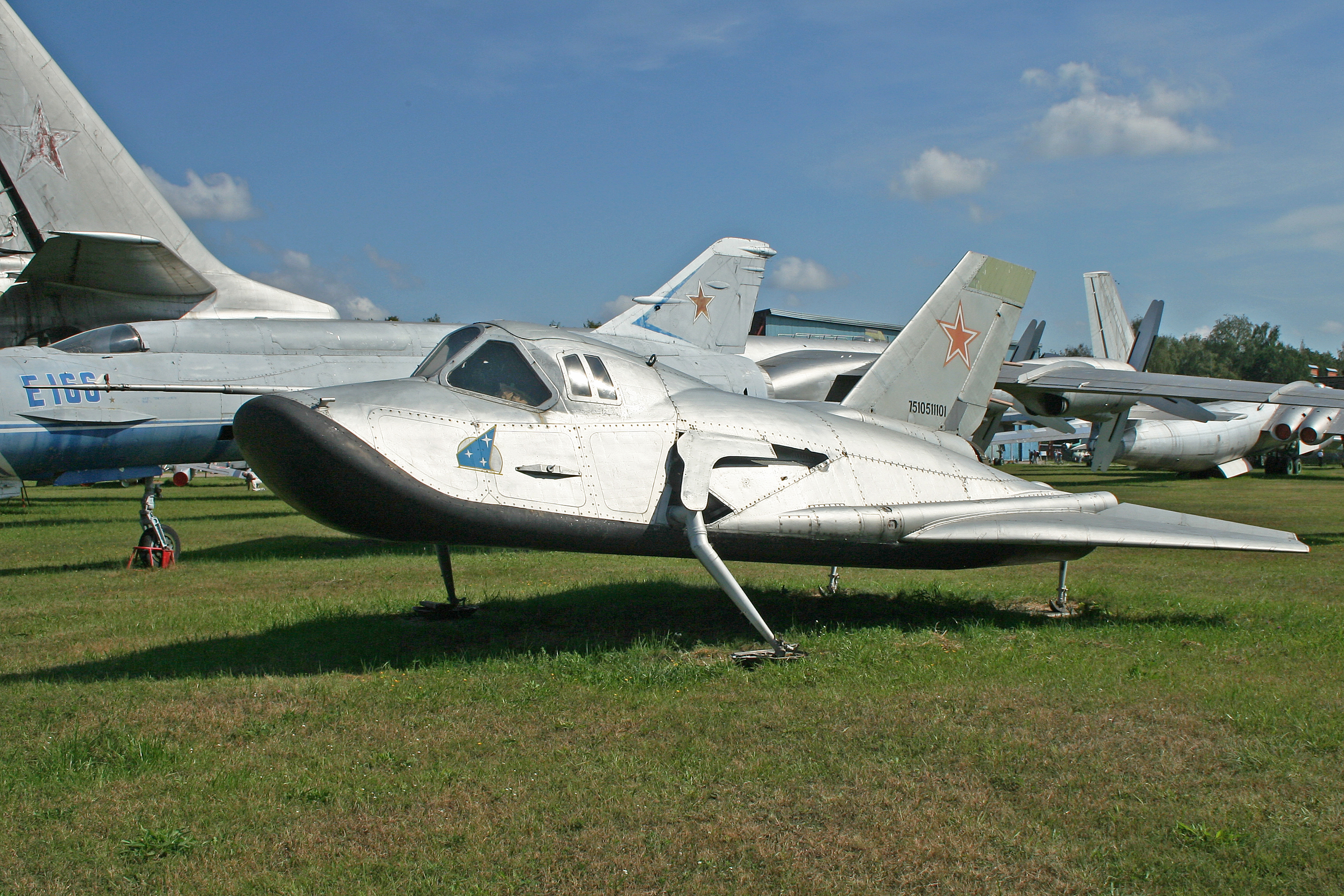 The fascinating MiG-105 was built as a test vehicle to explore low speed handling and landing characteristics with a lifting body aircraft. It first flew in 1976, taking off under its own power and flying 19 miles. It made eight further flights before the project was cancelled in favour of the Buran Space shuttle project in 1978. c/n 7510511101. It is now on display at the Russian Air Force Museum. Monino, Russia. 13-8-2012